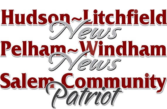 Mastheads of the Area News Groups papers.